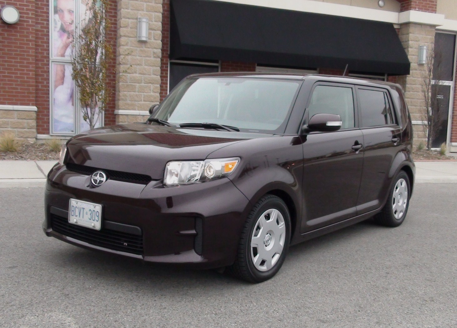 From Tino Rossini's Reviews.